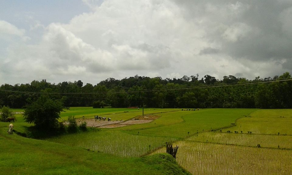 Hittalakoppa during monsoonಕನ್ನಡ: Hittalakoppa da ondu sundara parisara